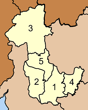 Map of Wang Wiset district, Trang province, Thailand, with the communes (tambon) numbered. Khao Wiset (เขาวิเศษ) Wang Maprang (วังมะปราง) Ao Tong (อ่าวตง) Tha Saba (ท่าสะบ้า) Wang Maprang Nuea (วังมะปรางเหนือ)